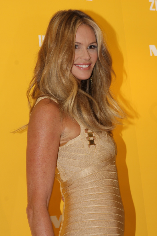 Elle Macpherson new face of Invisible Zinc Myer Sydney, by Eva Rinaldi - 21st October 2011